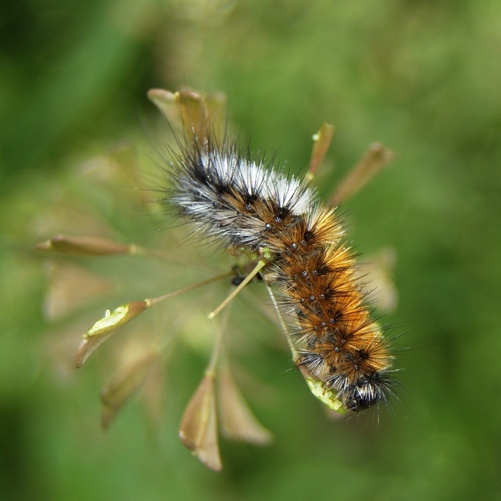 This is a very common caterpillar. Ocnogyna baetica var. meridionalis